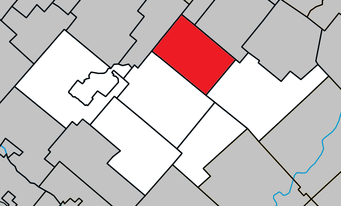 Location of Saint-Adrien, Quebec within Les Sources Regional County Municipality.